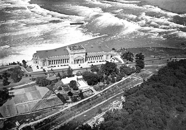 Aerial view of the Toronto Power Plant and the Upper Rapids of the Niagara River. Queen Victoria Park and the Niagara Parkway are directly in front of the power plant ; the old scow which ran aground in 1918 is in centre background.